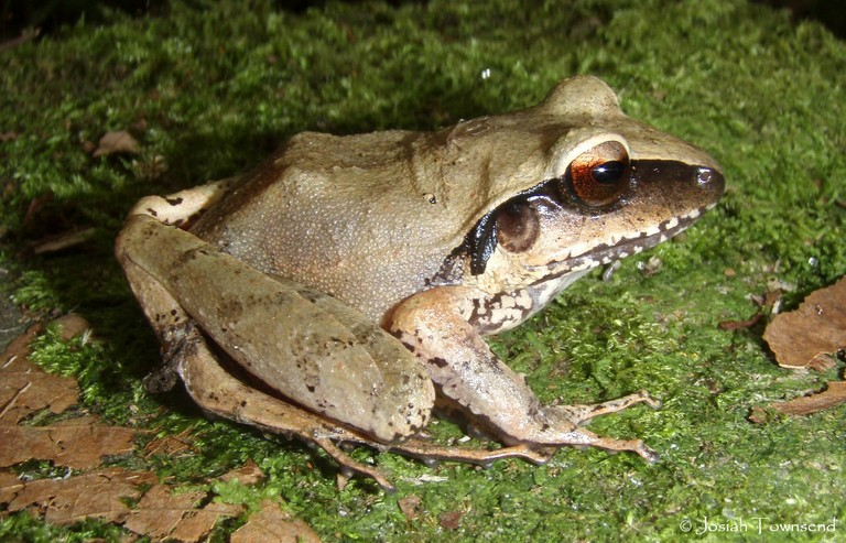 Craugastor laticeps